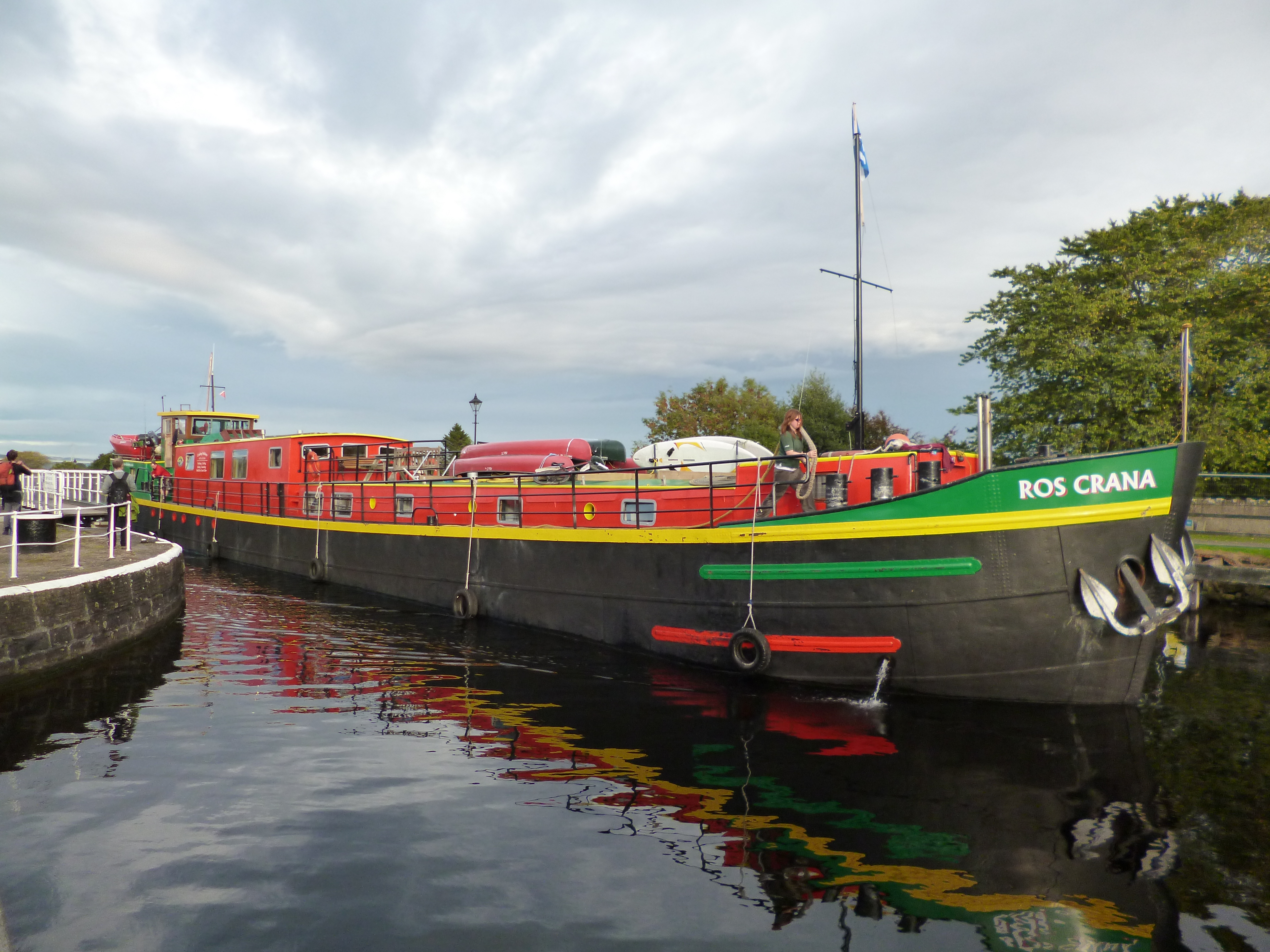 Ros Crana emerging from the top lock of the Muirtown flight, Caledonian canal